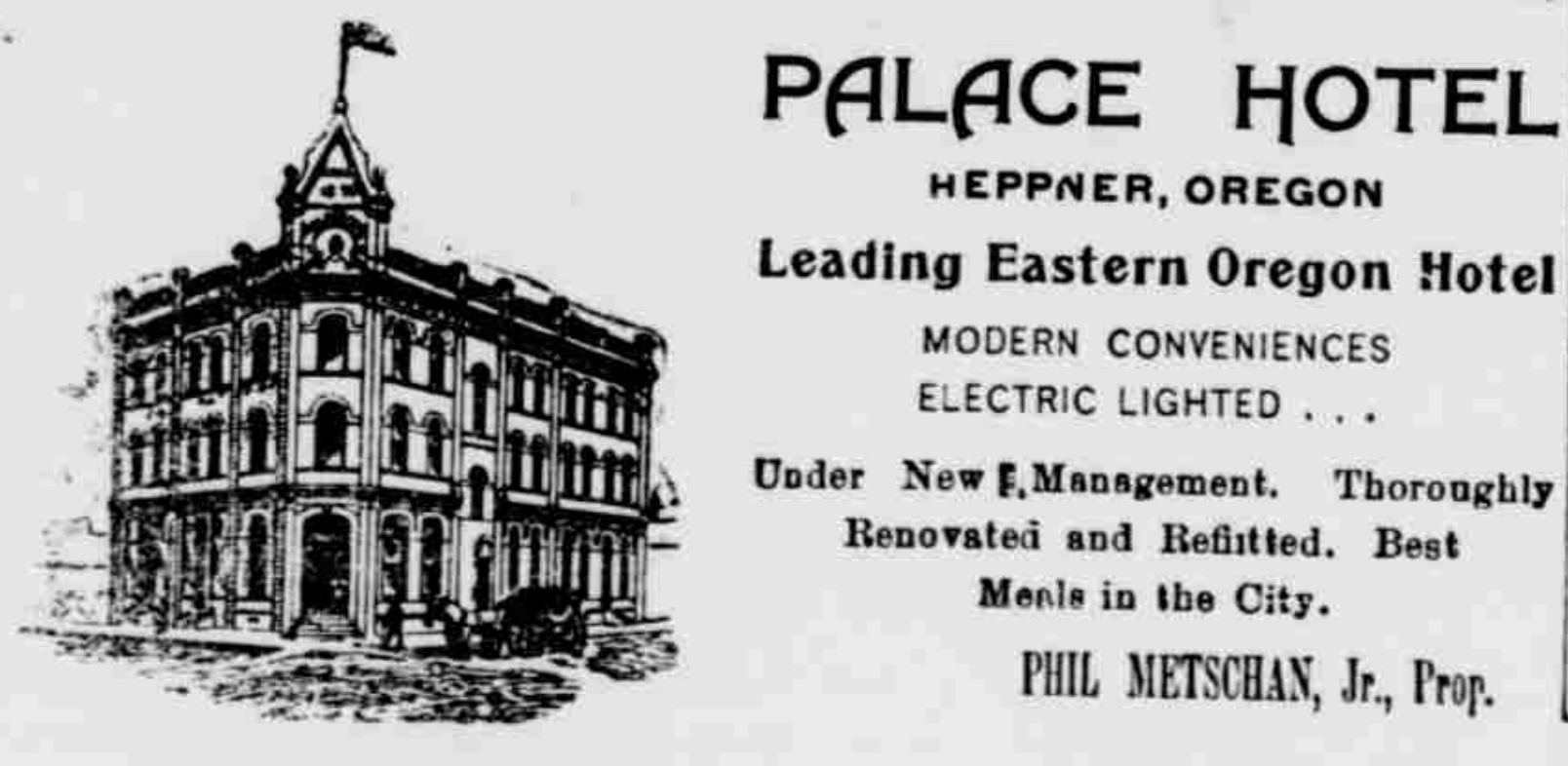 1904 Palace Hotel Advertisement in Heppner, Oregon.